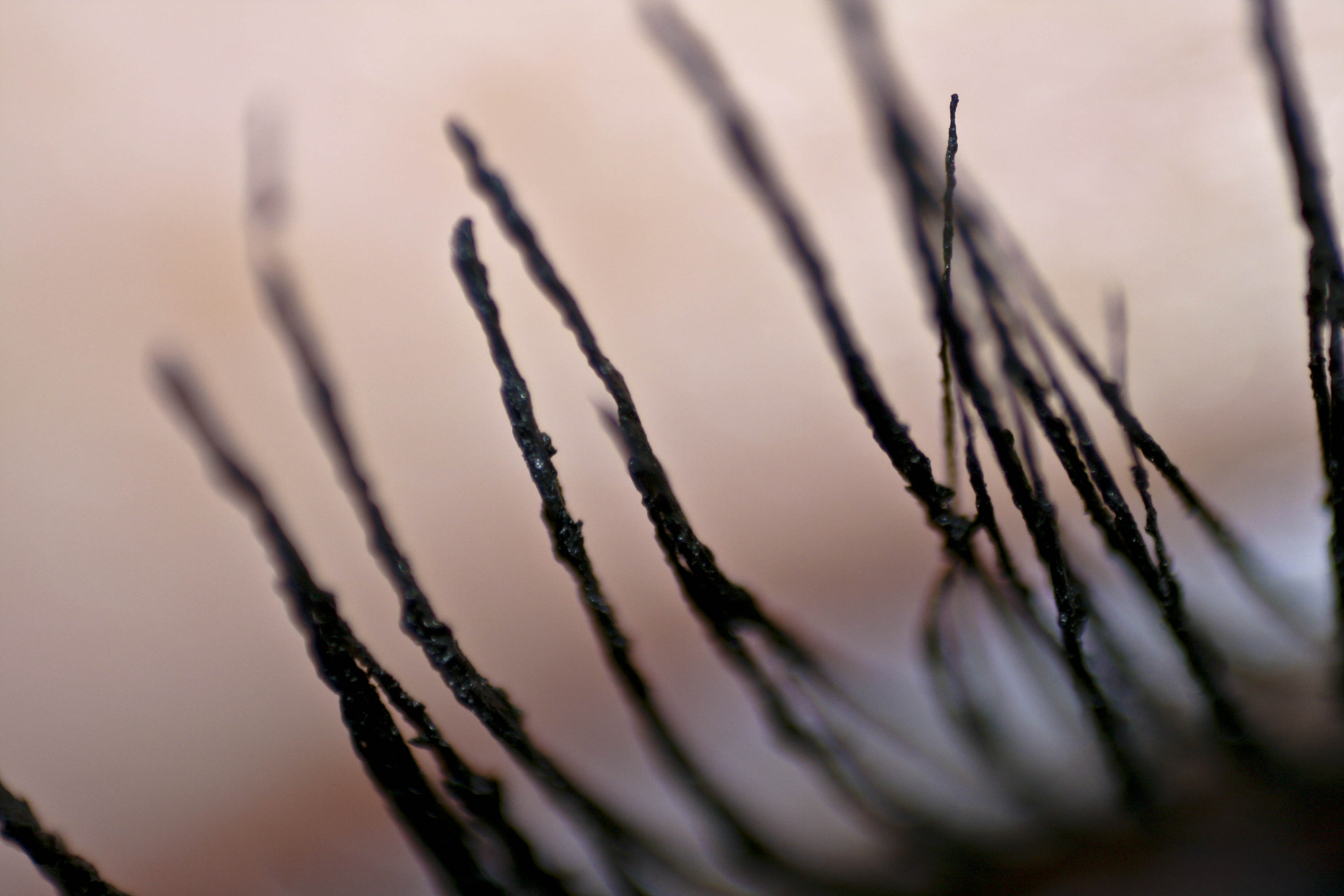 Sarah's eyelashes all macroed up!